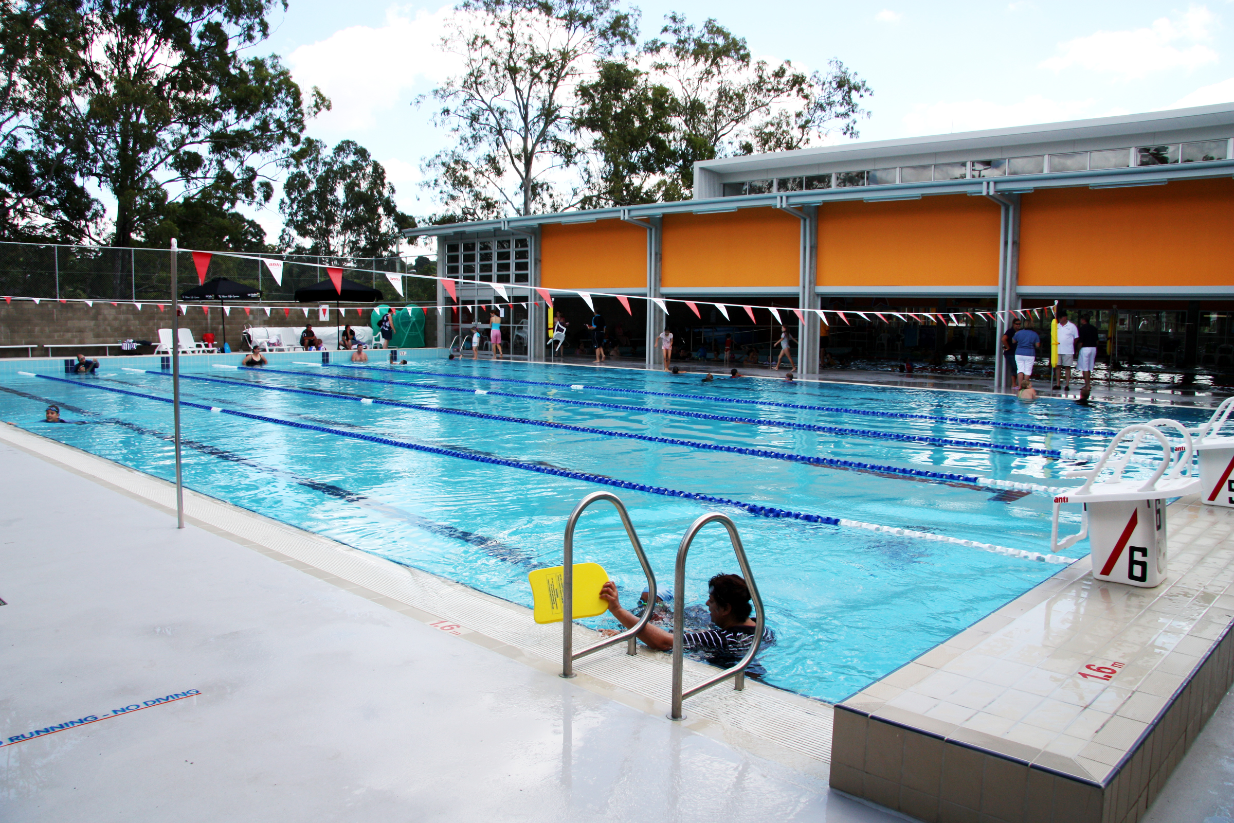 Mount Gravatt East Aquatic Centre - 25 metre outdoor pool